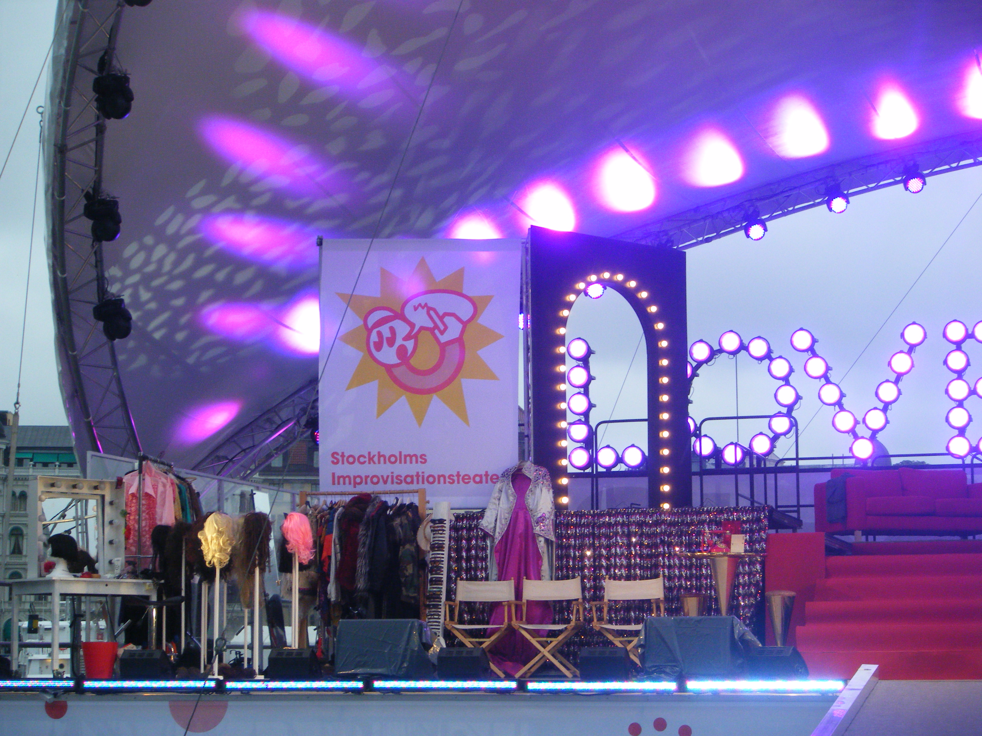 Stockholms improvisationsteater on Love Stockholm 2010.